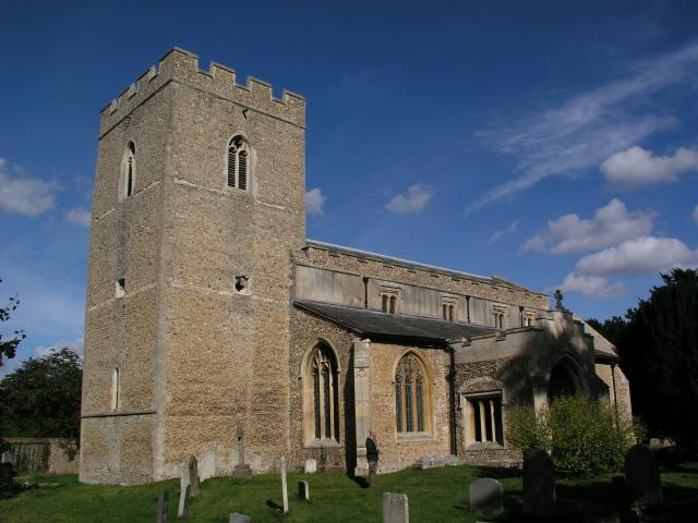 St Peter's parish church, Babraham, Cambridgeshire, seen from the southwest